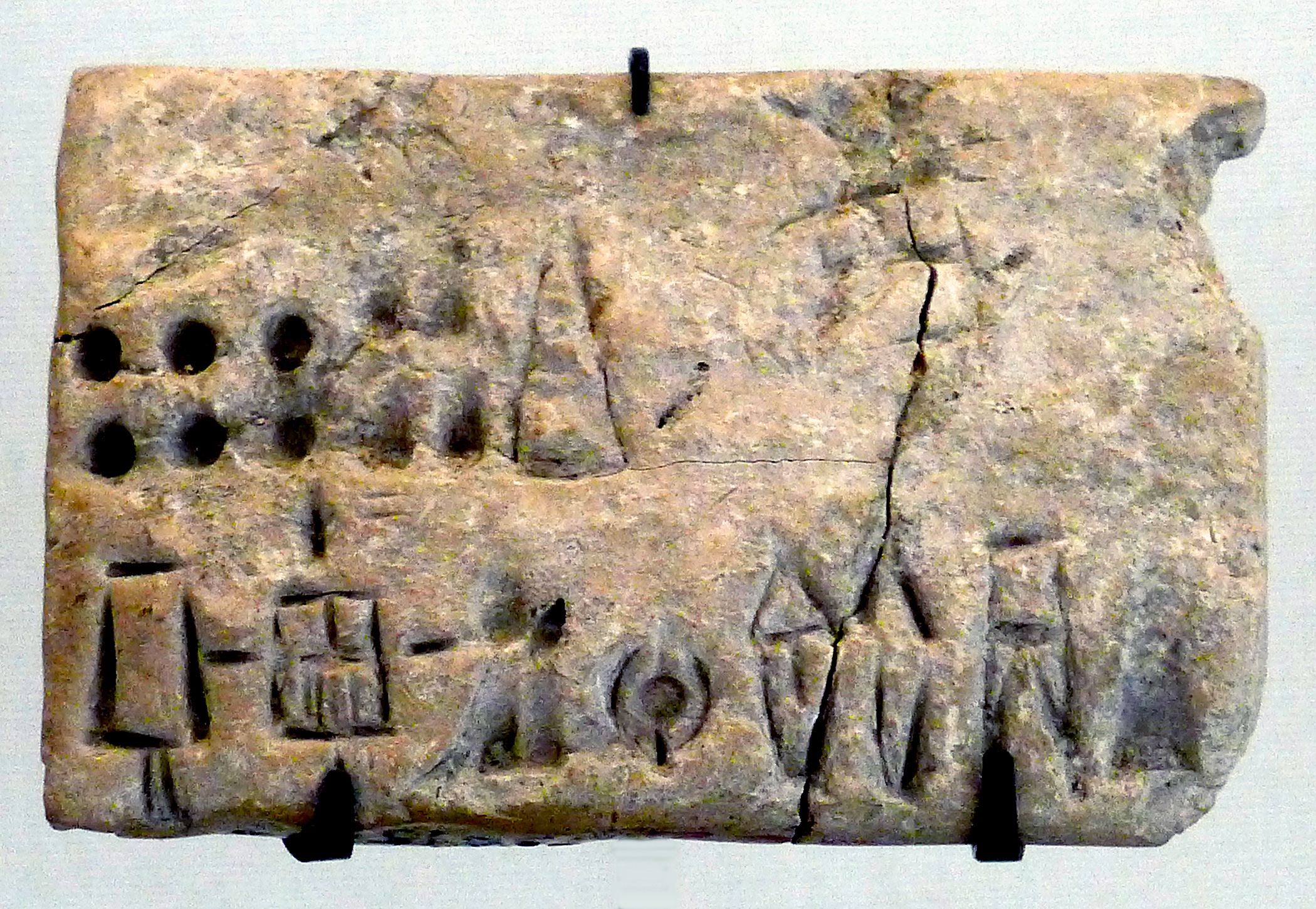 Economic tablet. From the Tell of the Acropolis in Susa.